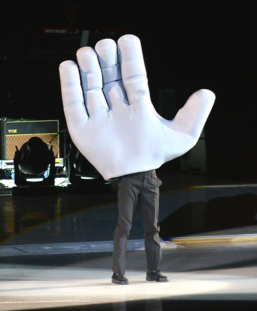 "Art on Ice" at the Globe Arena in Stockholm, March 13, 2014.